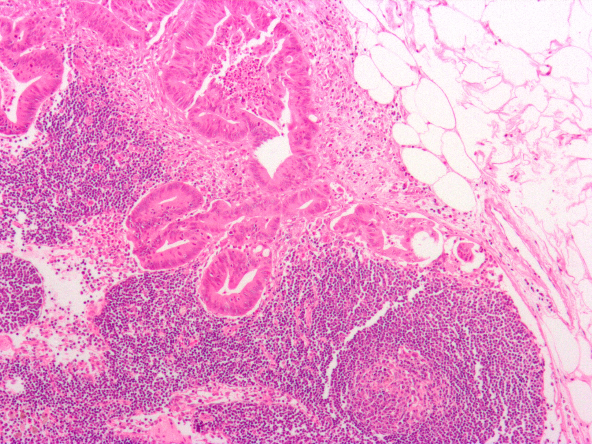 Micrograph of a colorectal adenocarcinoma metastasis to a lymph node, also lymph node metastasis. H&E stain. The cancer (forming glands) is seen at the centre-top. Adipose tissue is present on the upper right. See also Image:Breast carcinoma in a lymph node.jpg - met to a lymph node in breast carcinoma. Image:Lymph node with papillary thyroid carcinoma.jpg - met to a lymph node in papillary thyroid carcinoma.